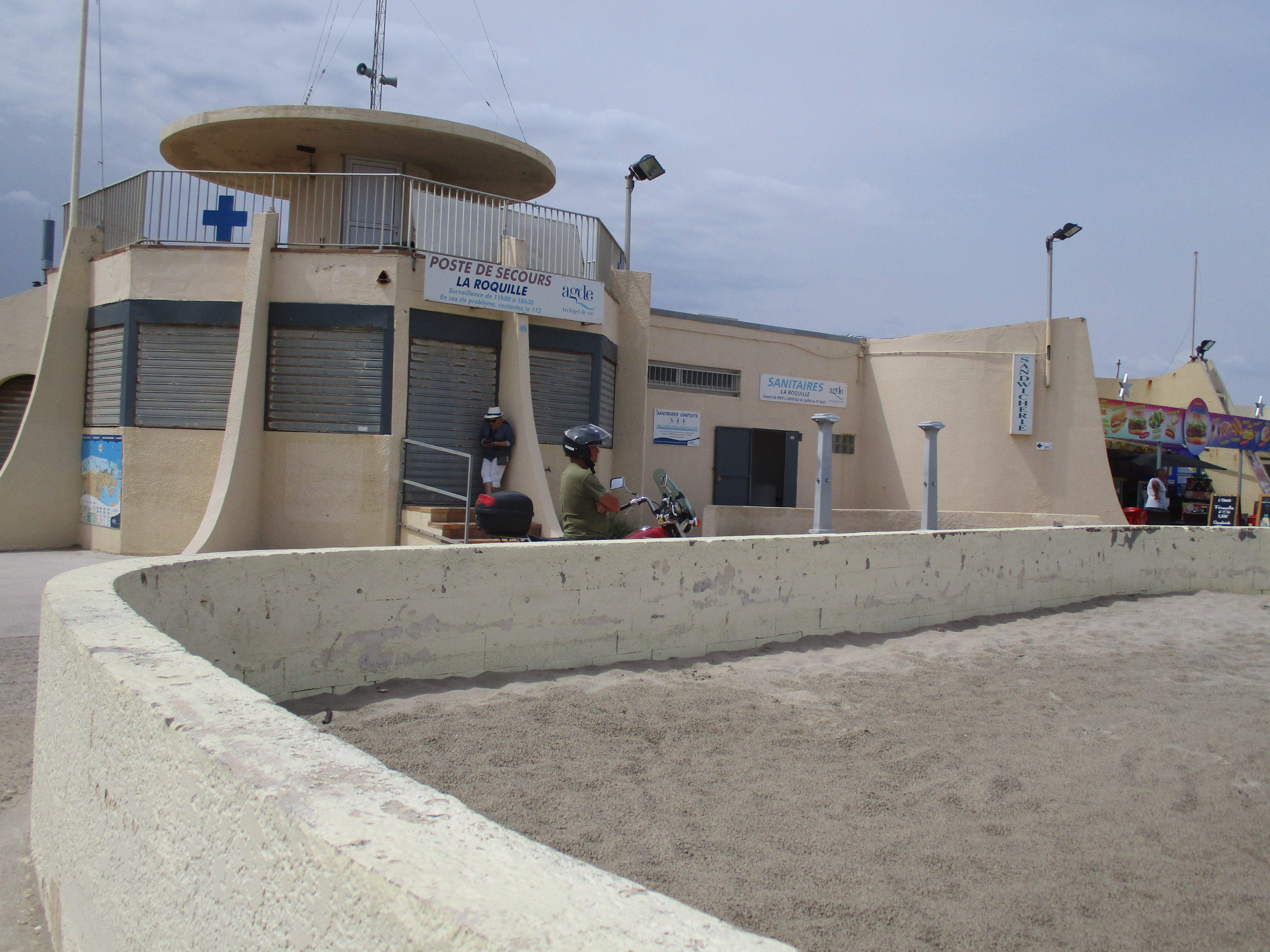 Beach watch for lifeguard, public toilet and terrasses of restaurants, concrete 1974 architecture